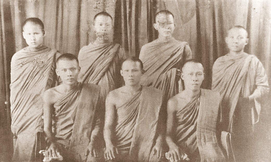 Buddhist monks of Wat Pa Kluai, Ban Pa Kluai, Khung Taphao subdistrict, Mueang Uttaradit, Uttaradit Province, Thailand.